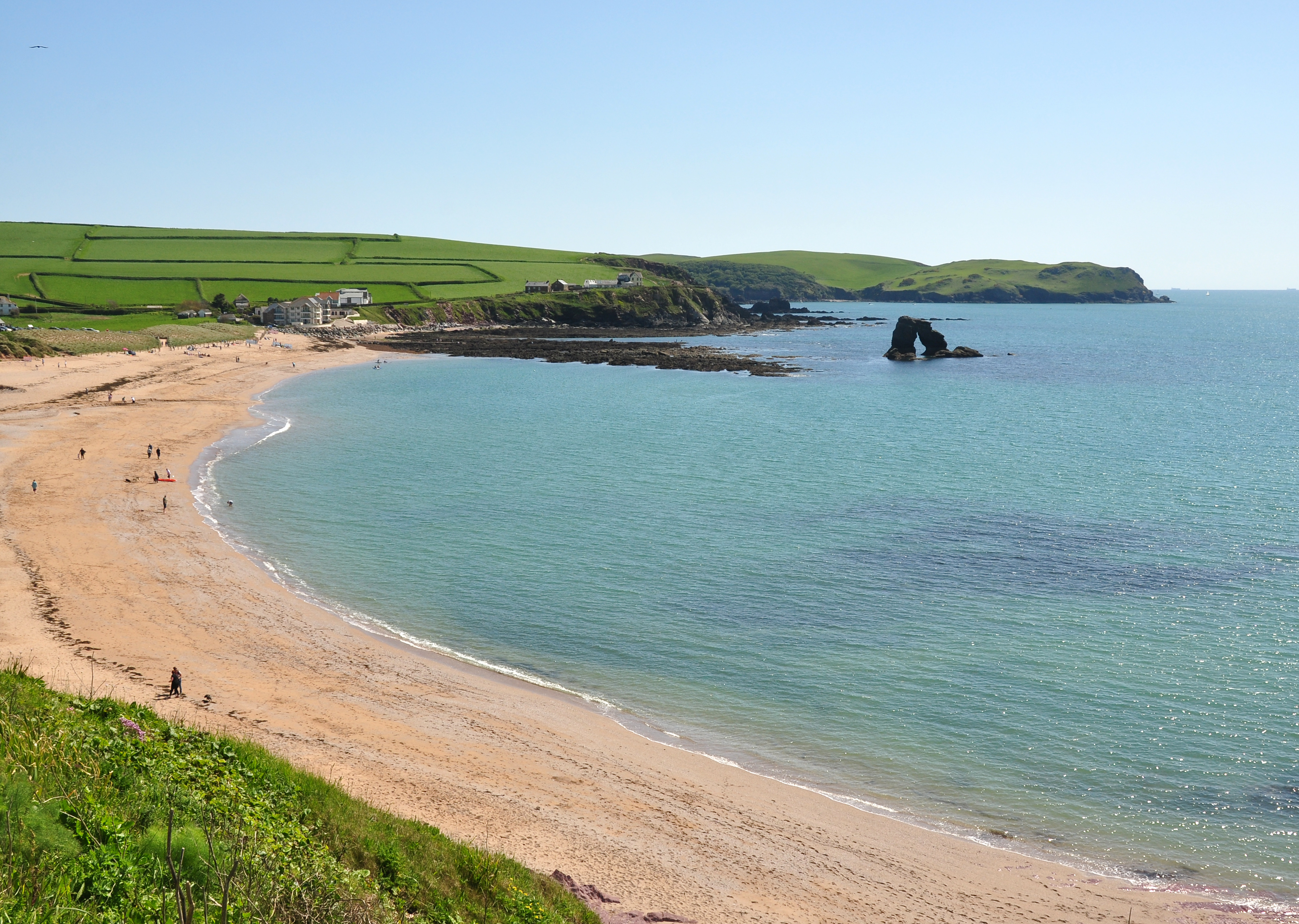 South Milton Sands in South Devon, with the Thurlestone just offshore.